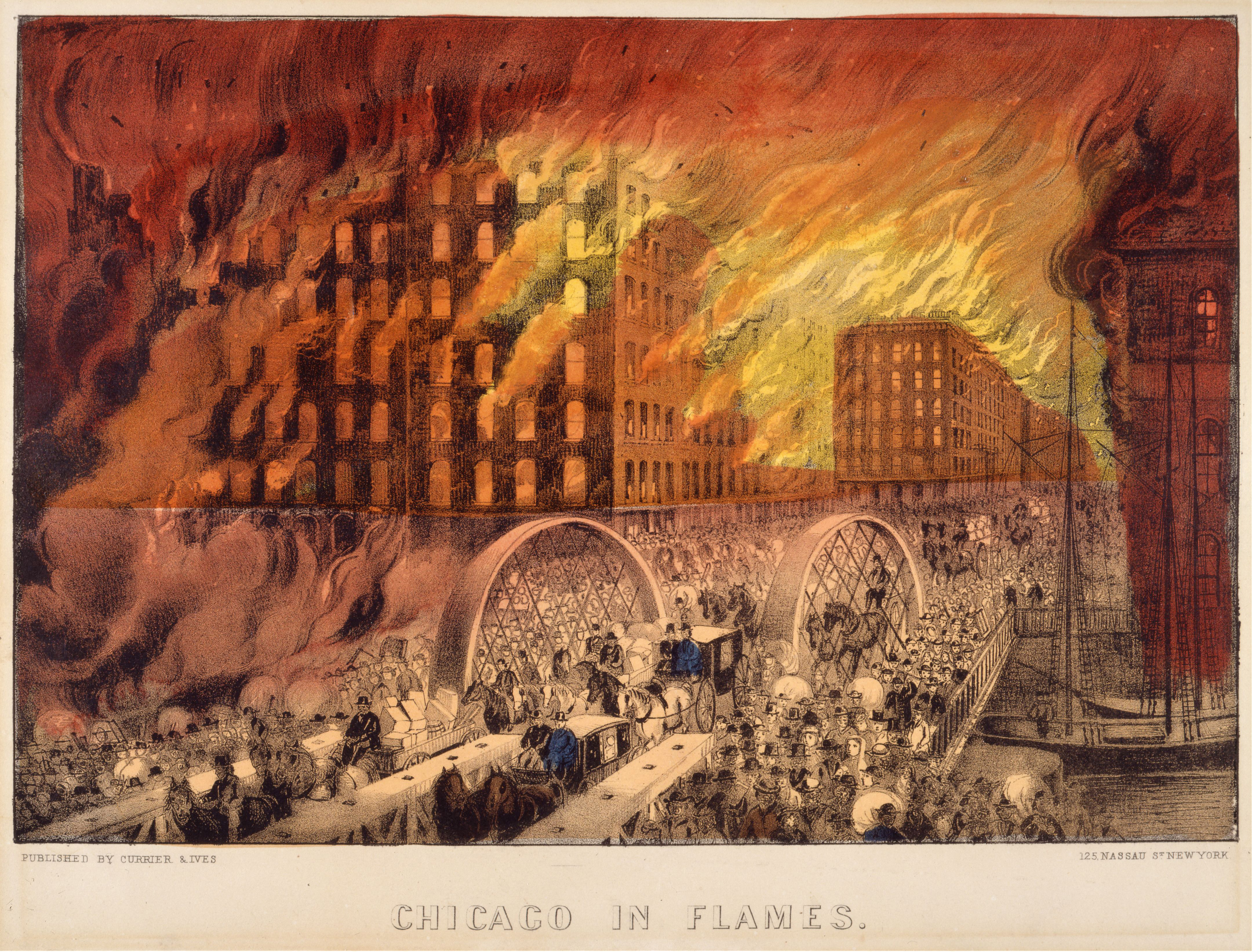 The Currier & Ives lithograph shows people fleeing across the Randolph Street Bridge. Thousands of people literally ran for their lives before the flames, unleashing remarkable scenes of terror and dislocation. "The whole earth, or all we saw of it, was a lurid yellowish red," wrote one survivor. "Everywhere dust, smoke, flames, heat, thunder of falling walls, crackle of fire, hissing of water, panting of engines, shouts, braying of trumpets, roar of wind, confusion, and uproar."